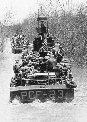 Fast Patrol Crafts (PCF, Swift boat) operating up a narrow river in Vietnam